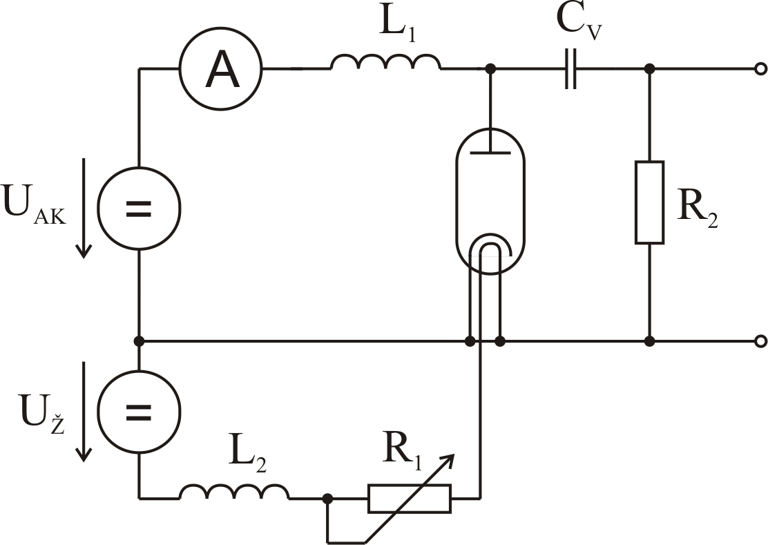 The circuit of white noise machine with vacuum tube.